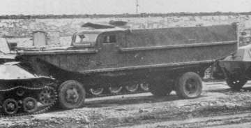 Side view of Su-Ki Amphibious Truck